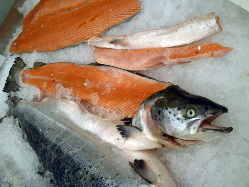 A salmon cut